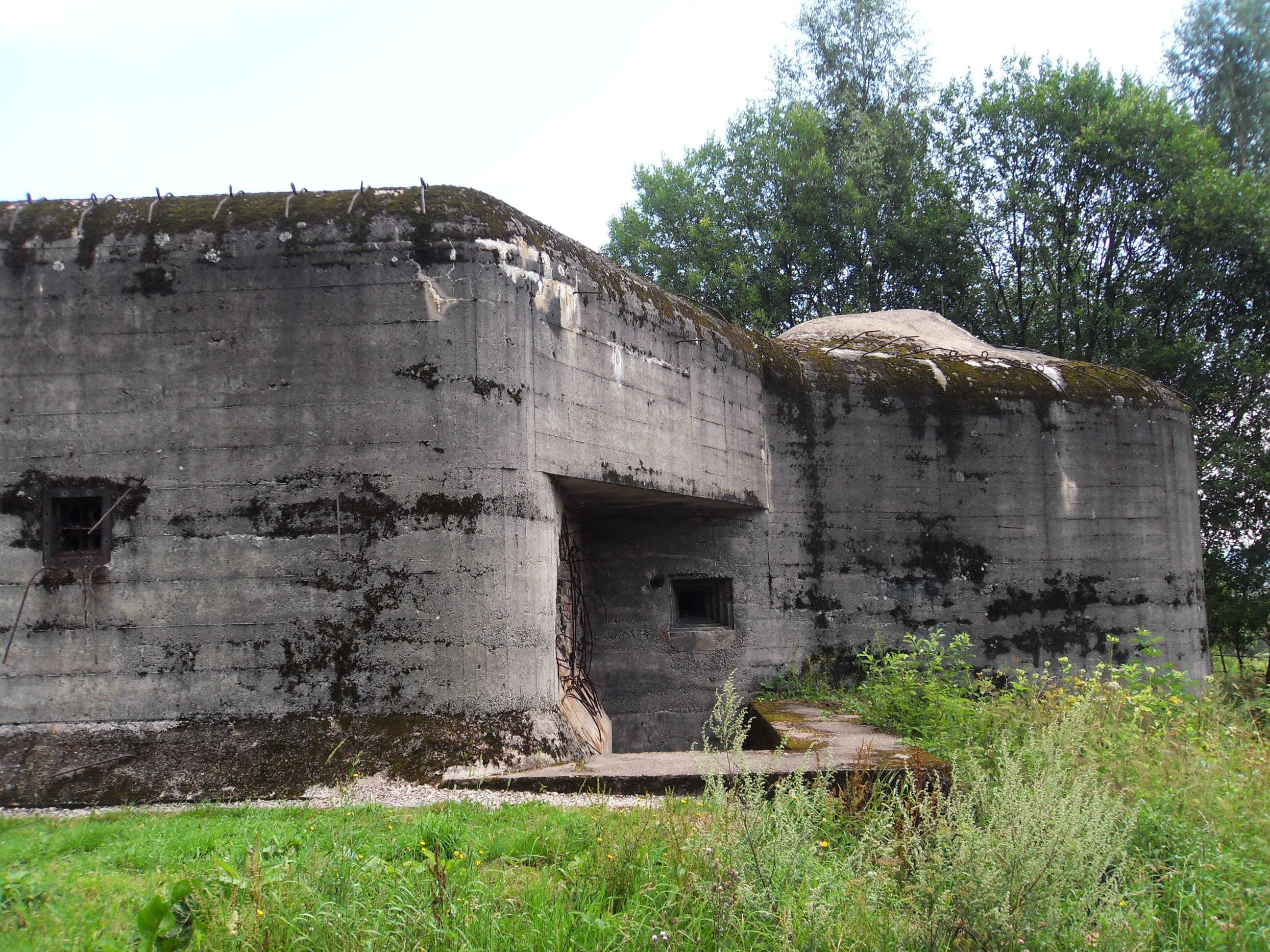 T-S 43 Pod lesem infantry casemate, Trutnov District, Czech Republic